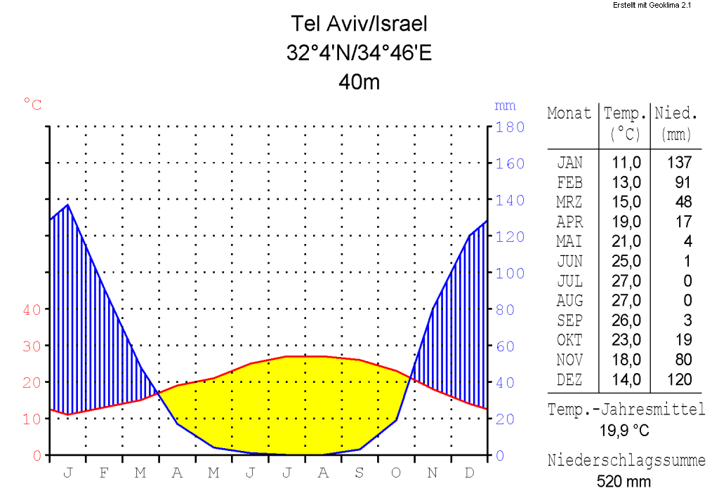 climate chart in the format by Walter and Lieth, metric, °Celsisus and millimeters, made with Geoklima 2.1